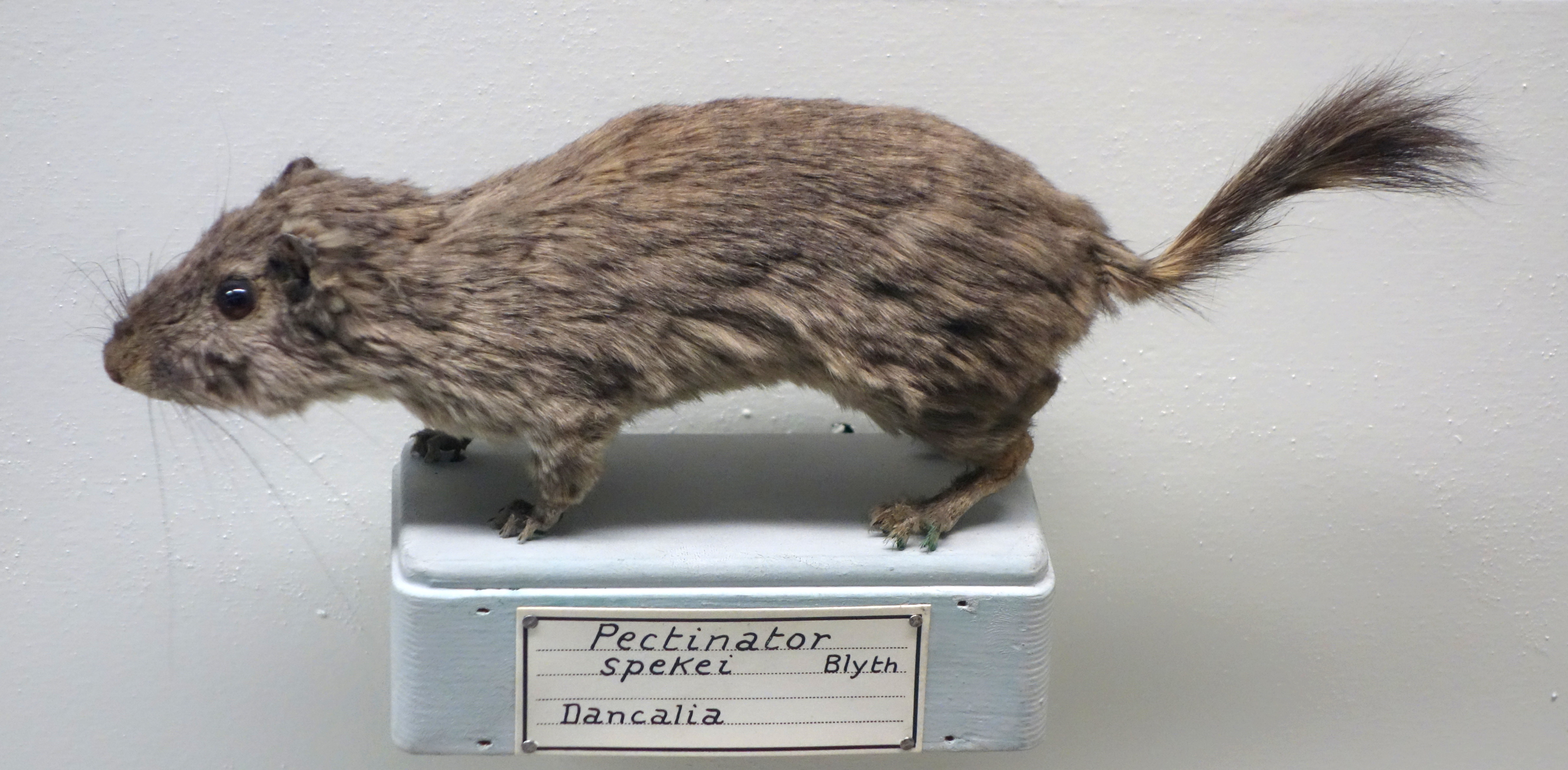 Exhibit in the Museo Civico di Storia Naturale di Genova, Via Brigata Liguria, 9, 16121, Genoa, Italy.